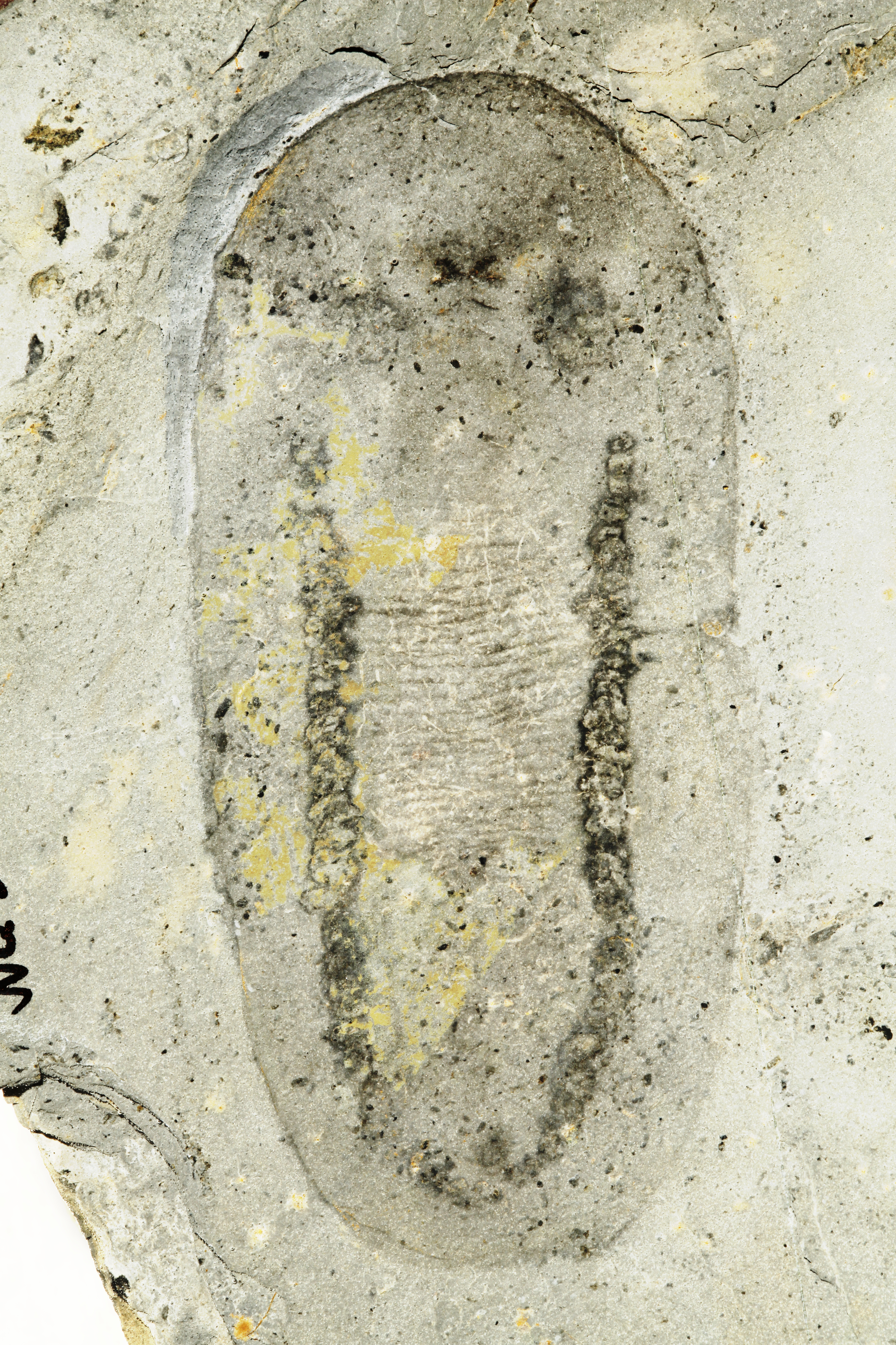 ROM 57723 (Fig. 8B in Smith 2013) – Odontogriphus from the Burgess Shale